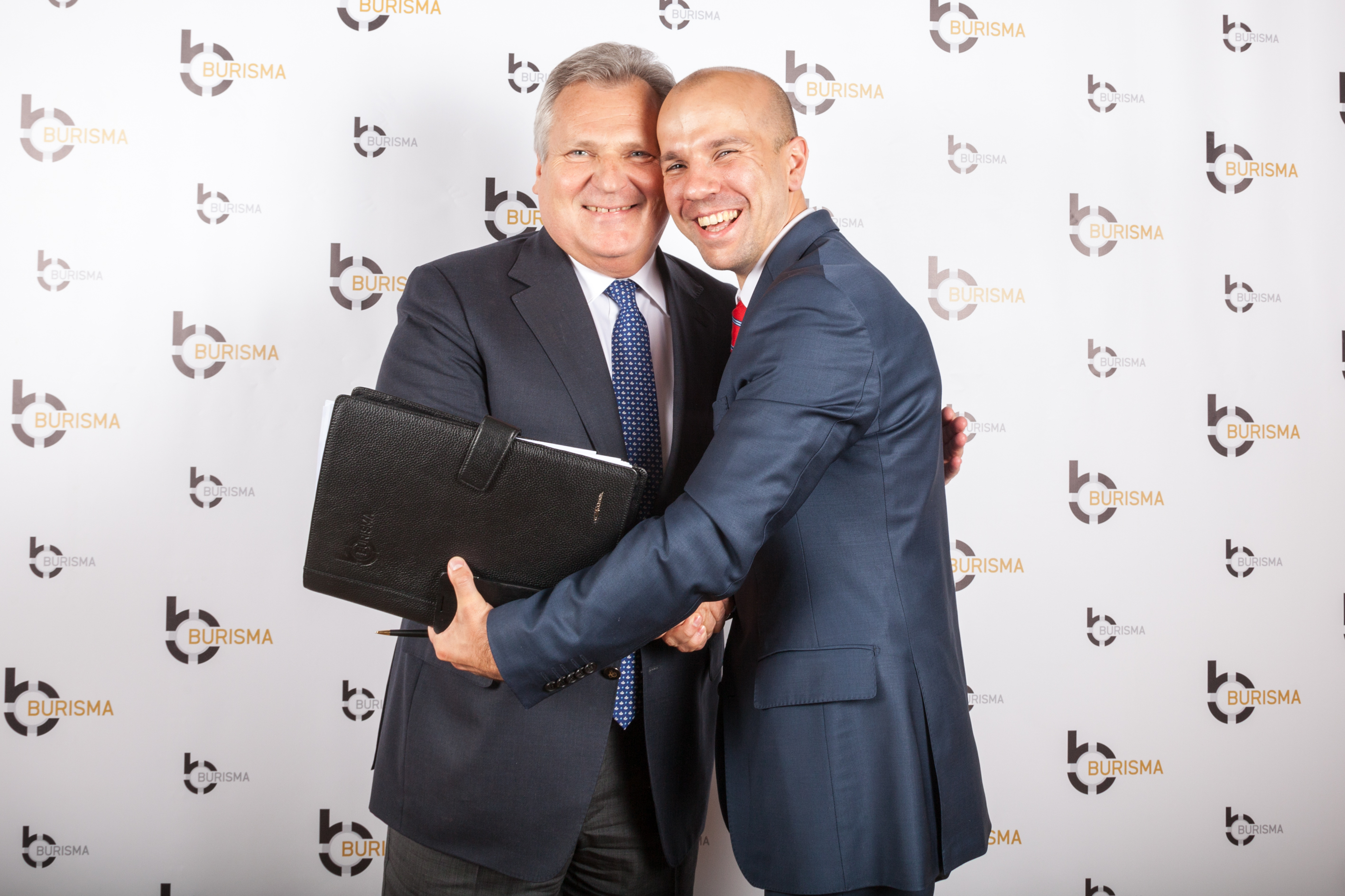 Vadym Pozharskyi Advisor to the Board of Directors at the Burisma Holdings with the former President of Poland Aleksander Kwasniewski